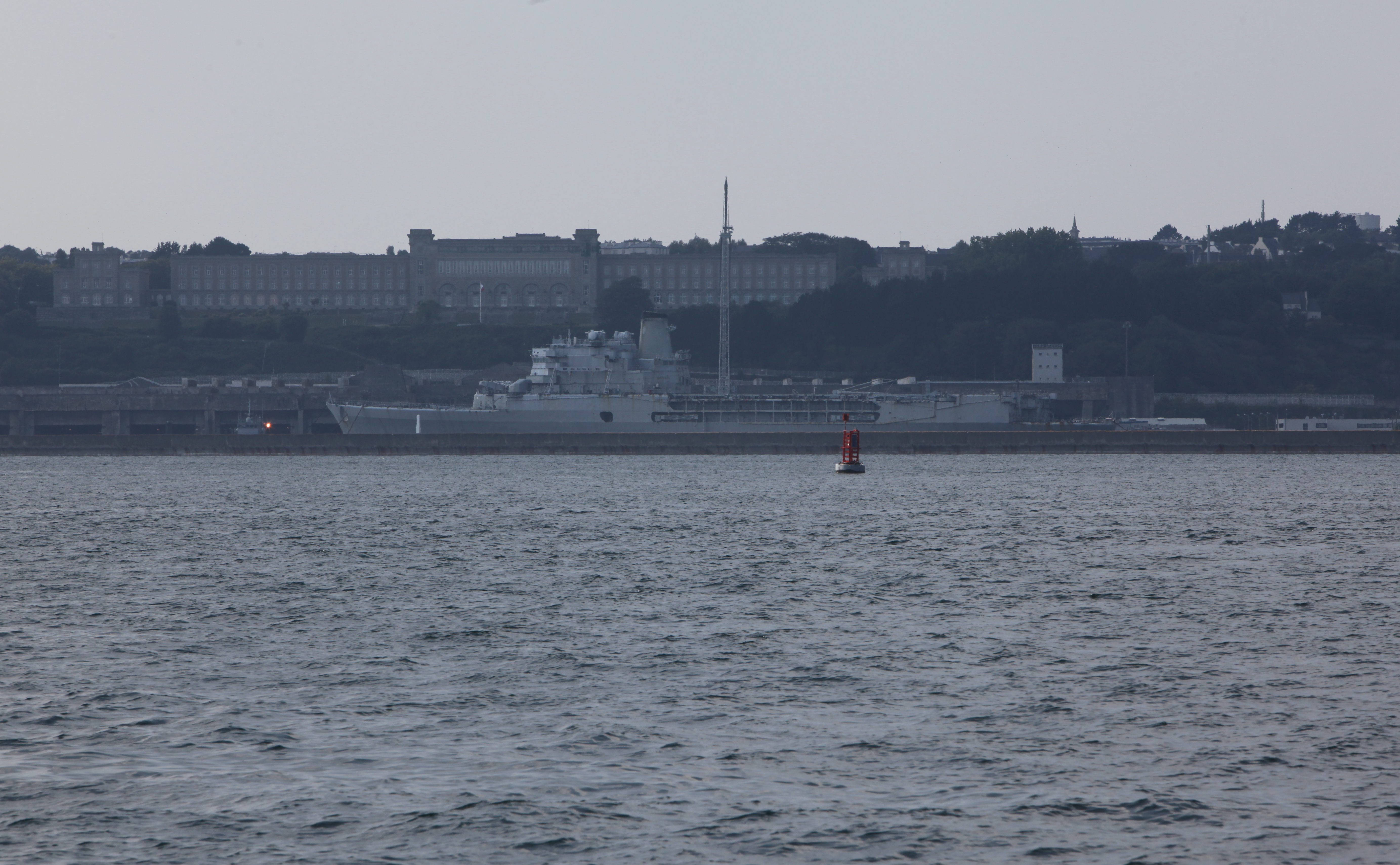 The ex-Jeanne d'Arc (R97) in Brest harbour